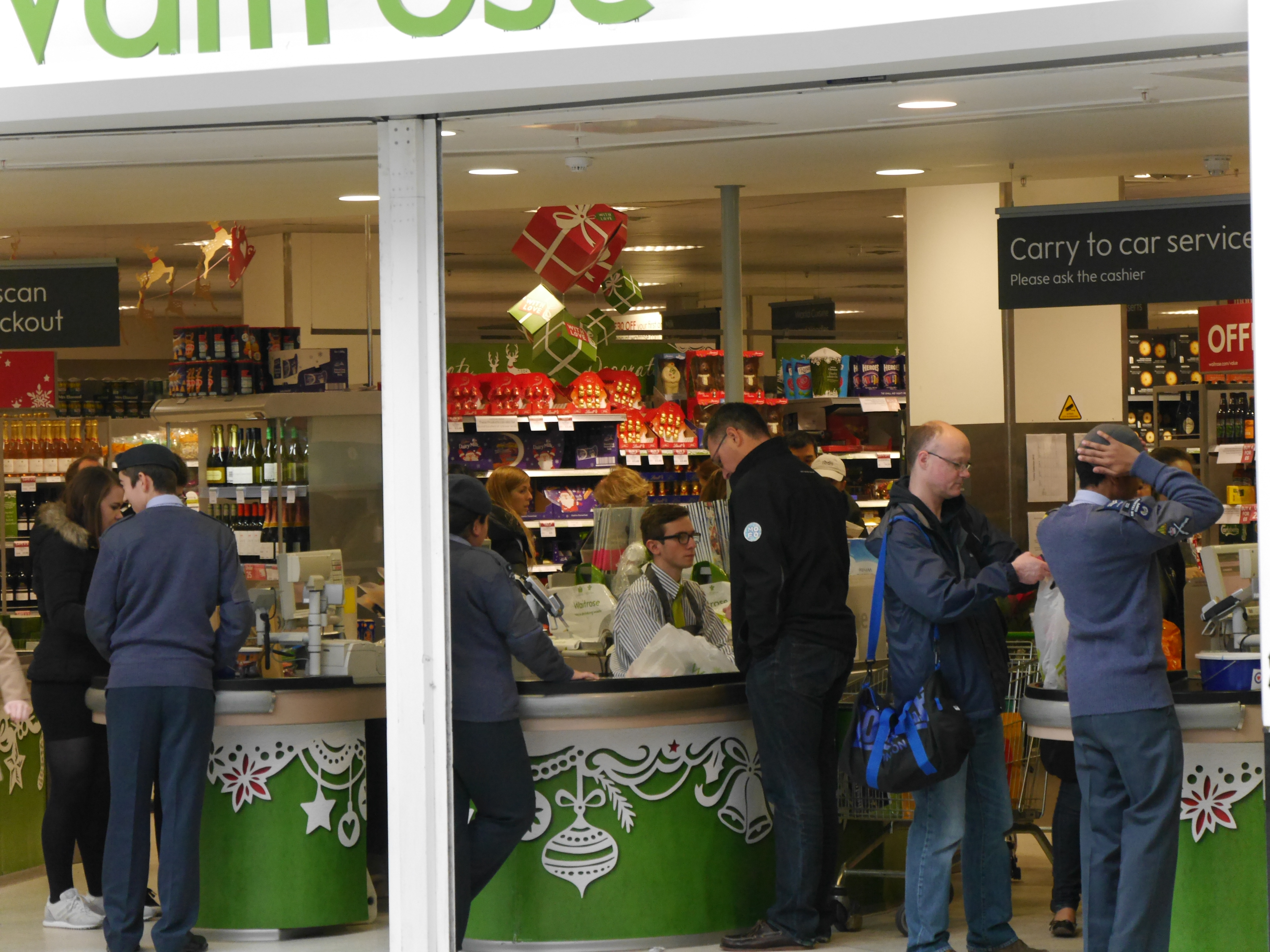 Putney Exchange